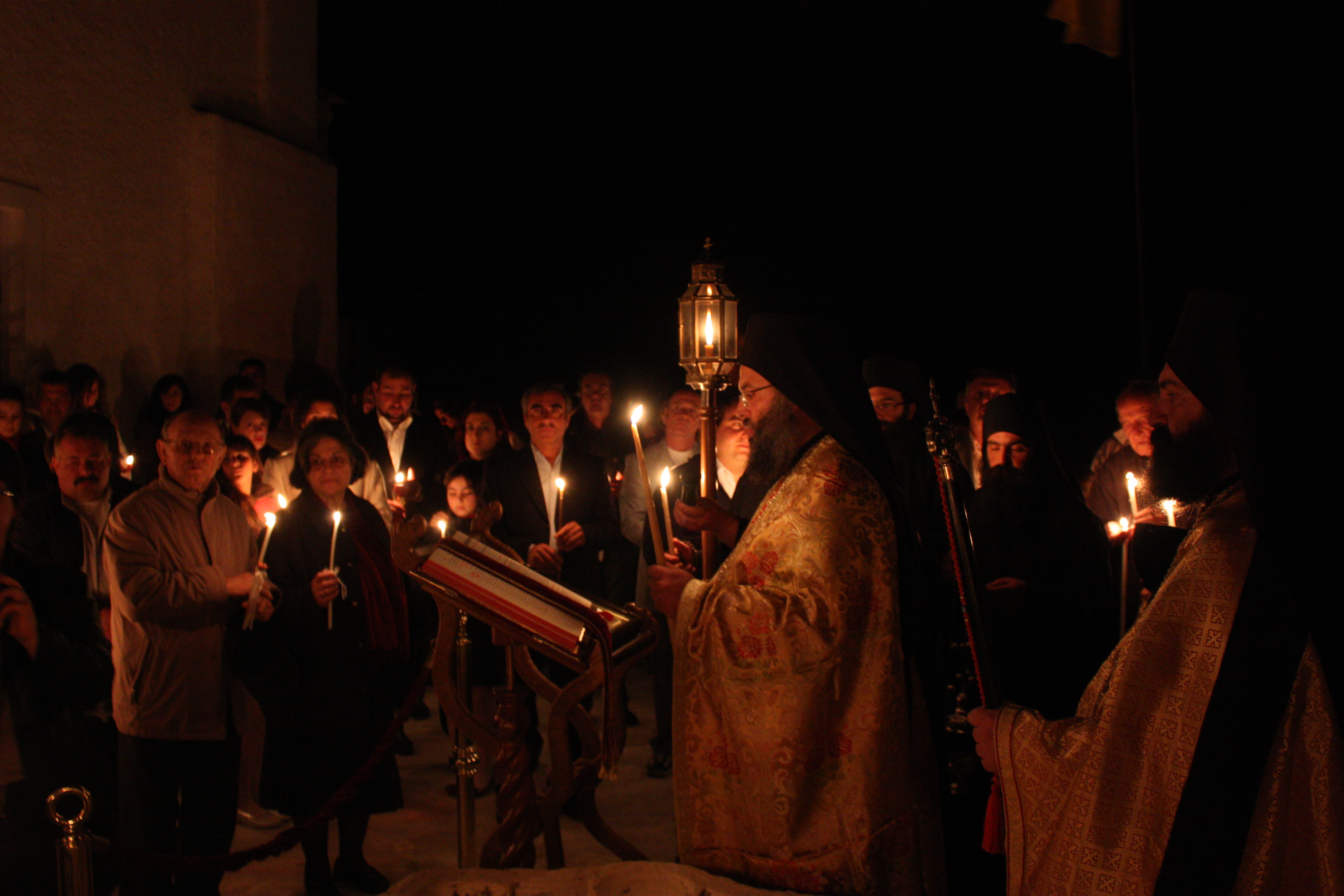 Image from the night of the Good Sunday at the Greek Orthodox monastery of Prophet Elias at Santorini, Greece... Χριστός Ανέστη!! Христос Воскресе!! Hristos a Înviat!! Great Saturday night at Prophet Elias of Santorini